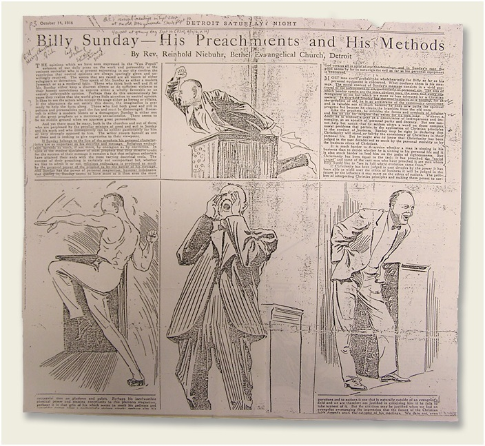 the beginning of Niebuhr's article